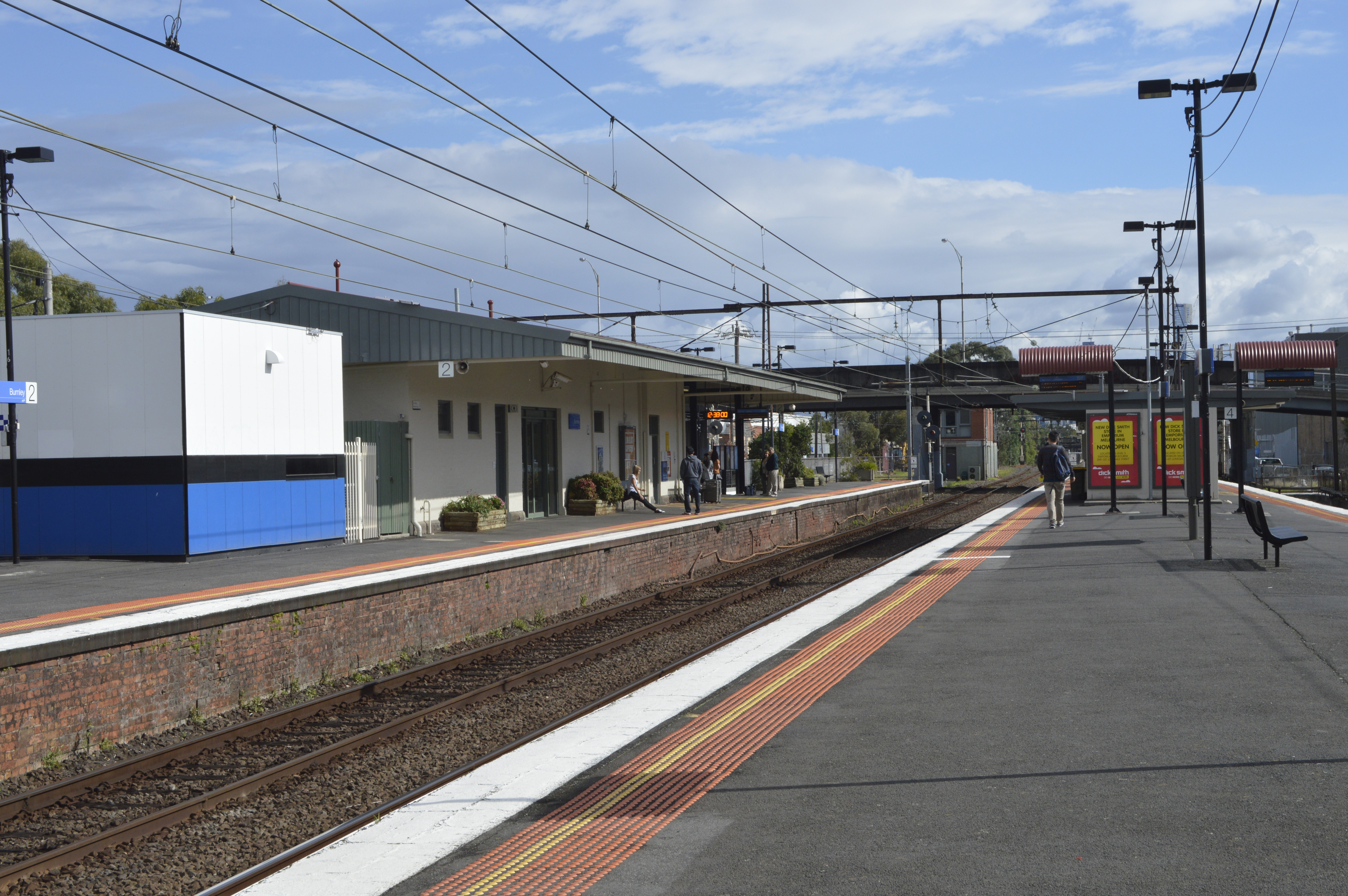 Looking west towards Melbourne.